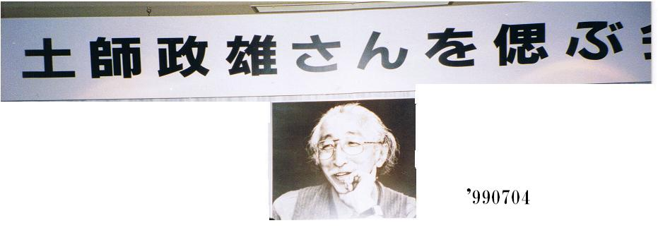 '990704 Finishing [ processing ] since the participant is reflected to the meeting and the front to remember.